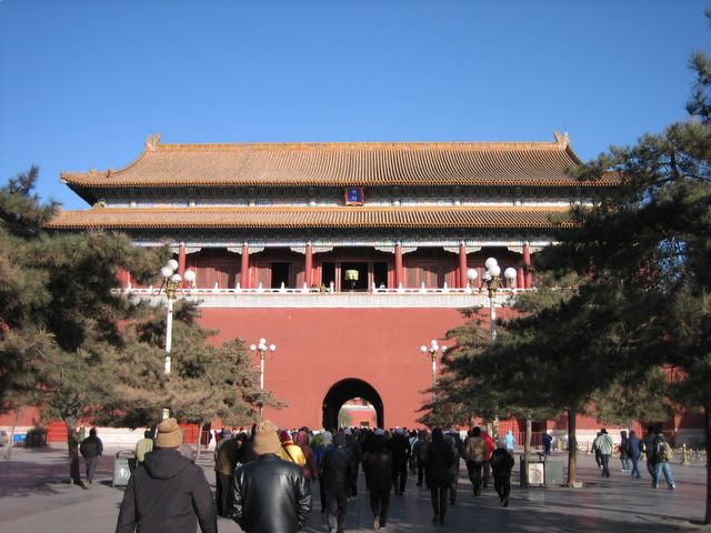 (view N) Gate of Uprightness